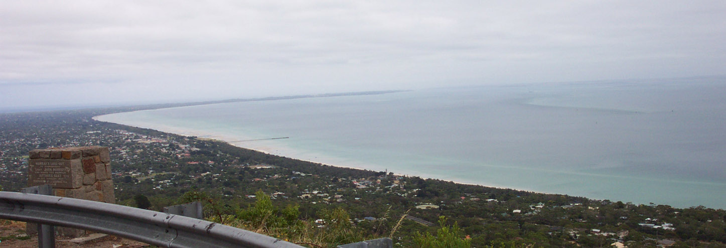 View of Mornington Peninsula and Port Phillip from Arthurs Seat in Victoria (Australia).